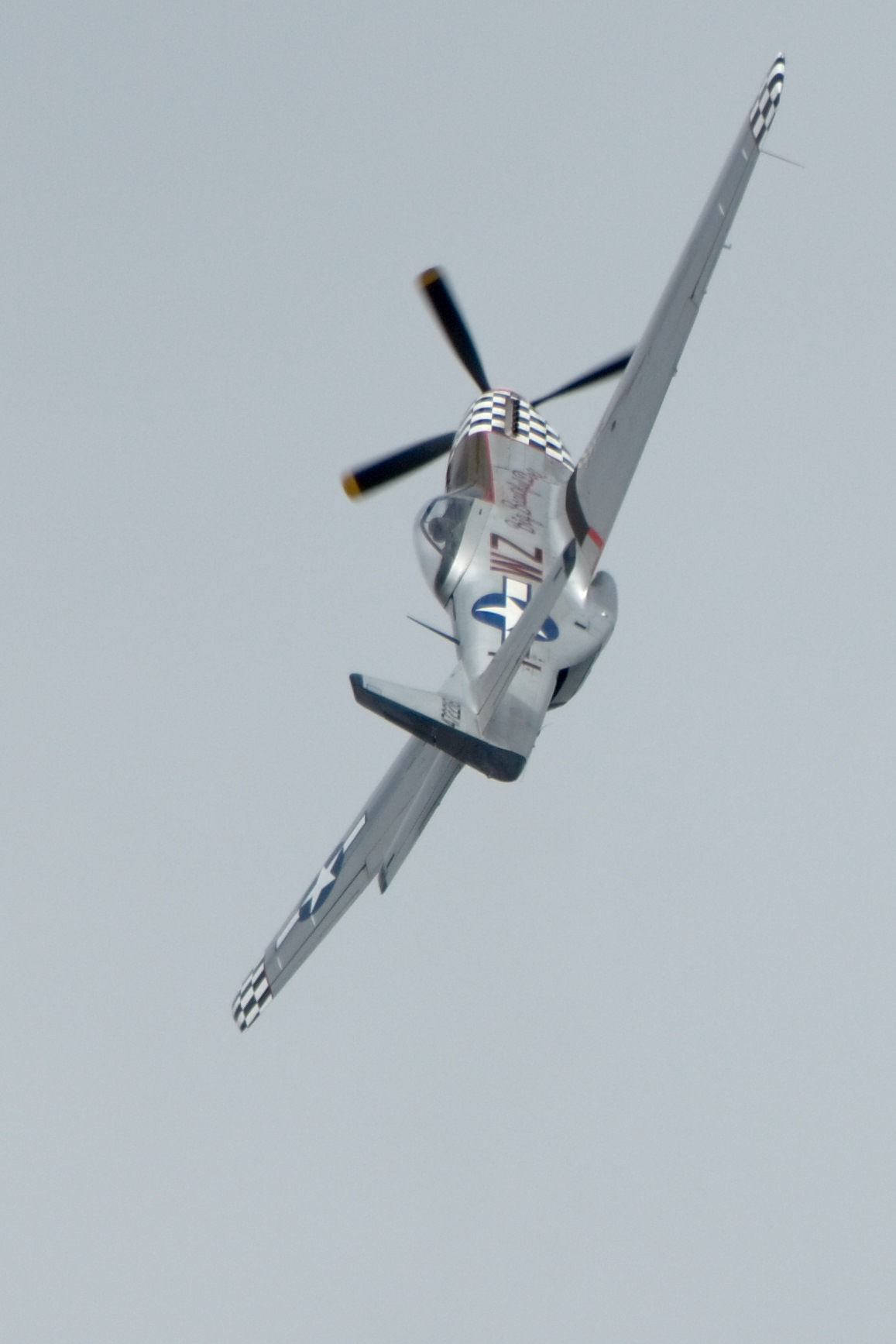 North American P-51 Mustang at ILA 2010